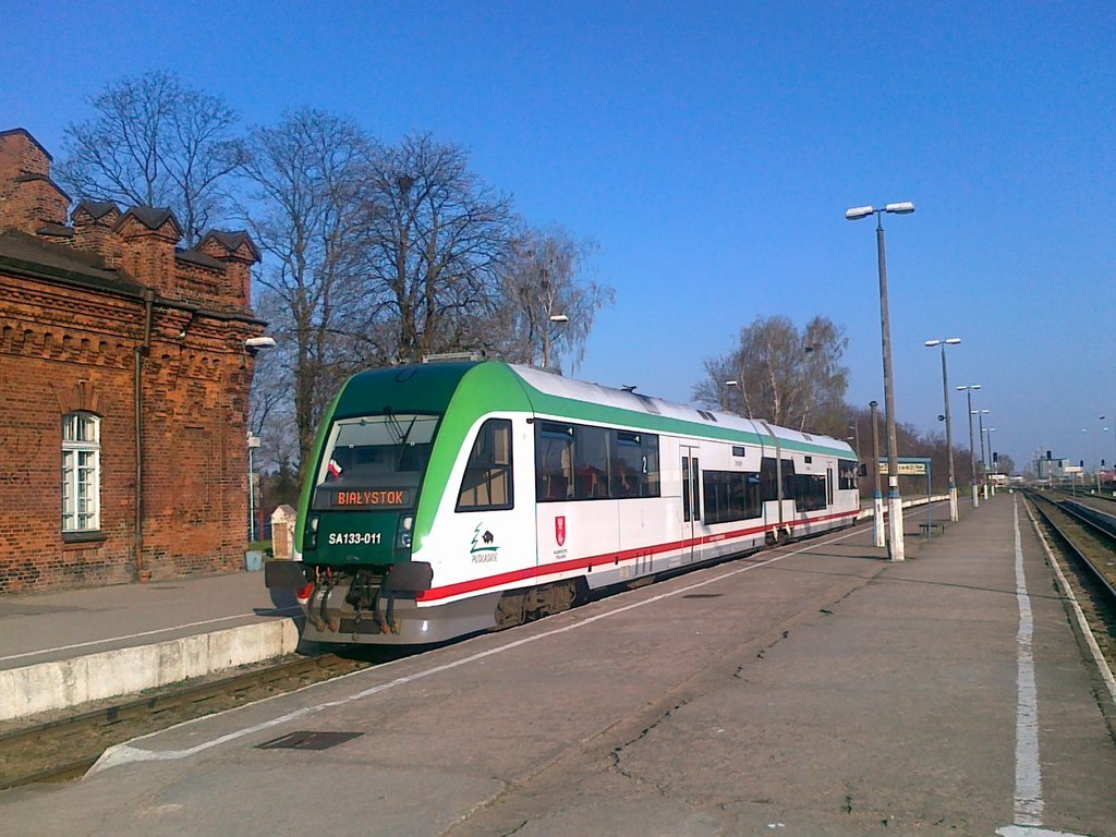 regio train (DMU SA133) to Białystok at Suwałki station